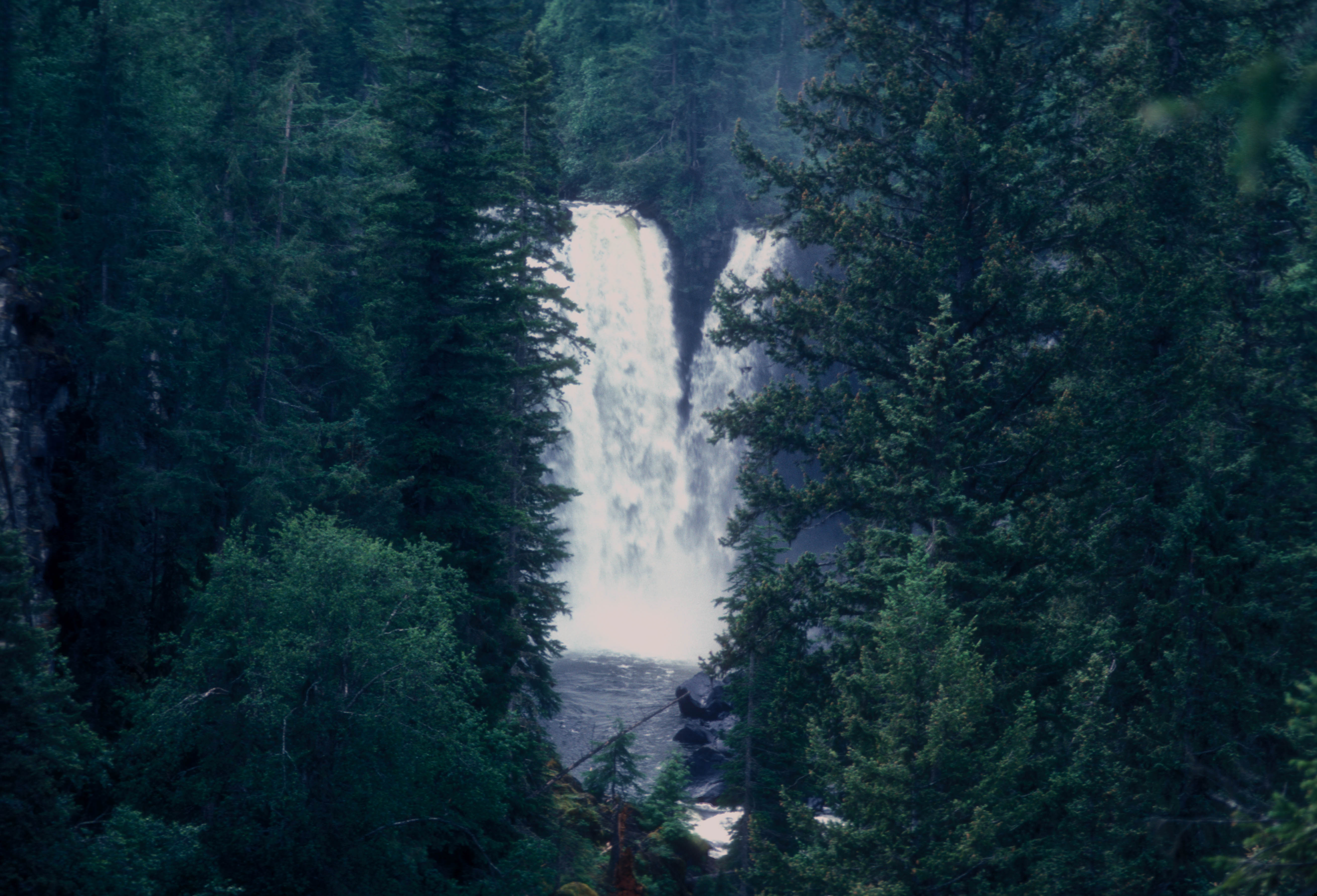 THE WATERFALL IS 66 FT HIGH. ACCESS TO MAHOOD FALLS (THE WATERFALL) IS BY A SHORT TRAIL OFF THE MAHOOD LAKE ROAD.